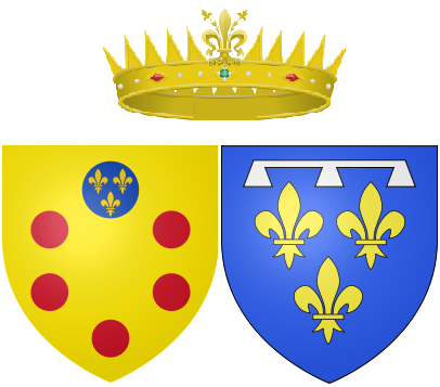 Arms of Marguerite Louise d'Orléans as Grand Duchess of Tuscany